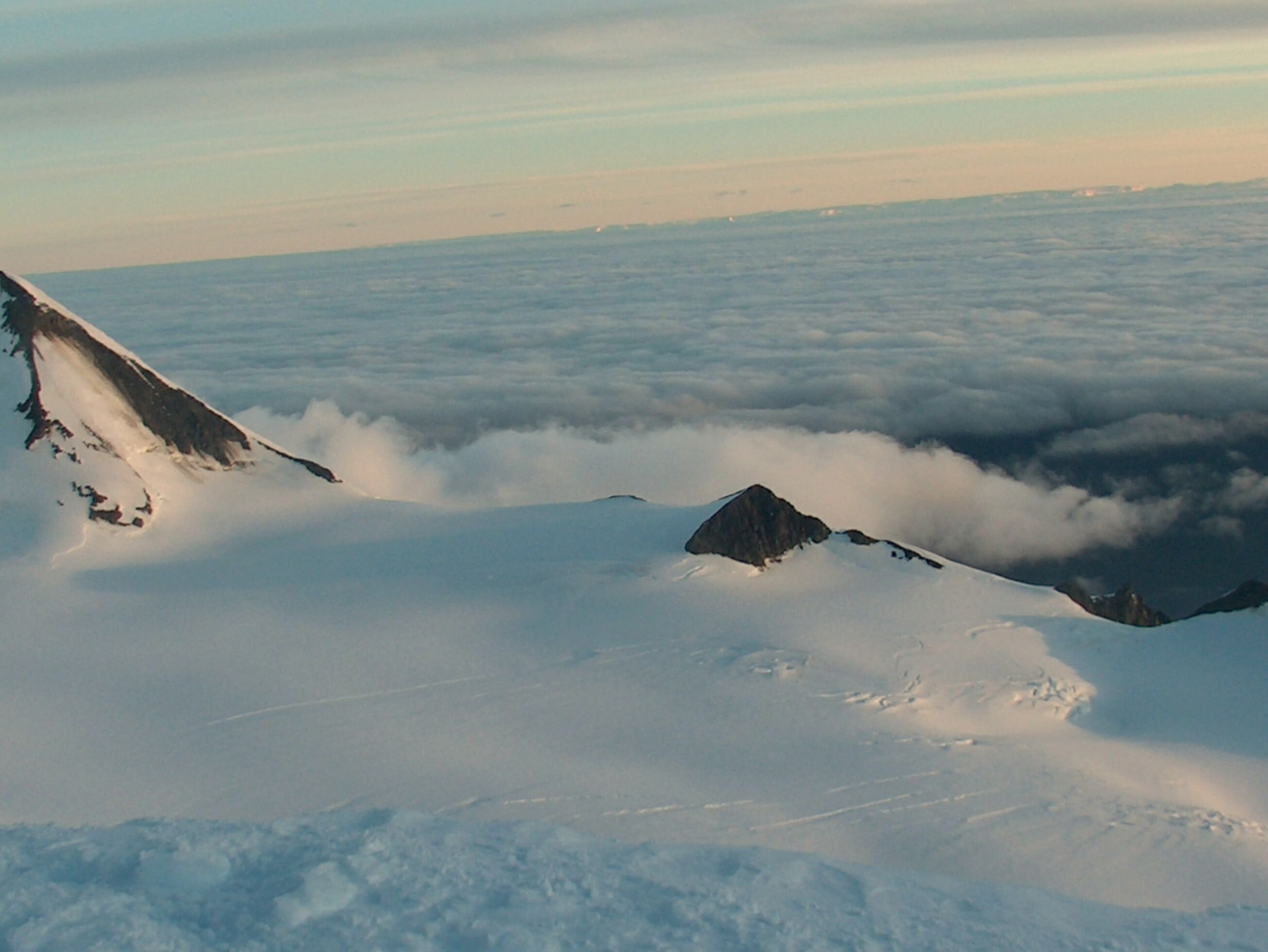 Description: Macy Glacier and Silistra Knoll from the crest of Tangra Mountains, with Bransfield Strait and the Antarctic Peninsula in the background.